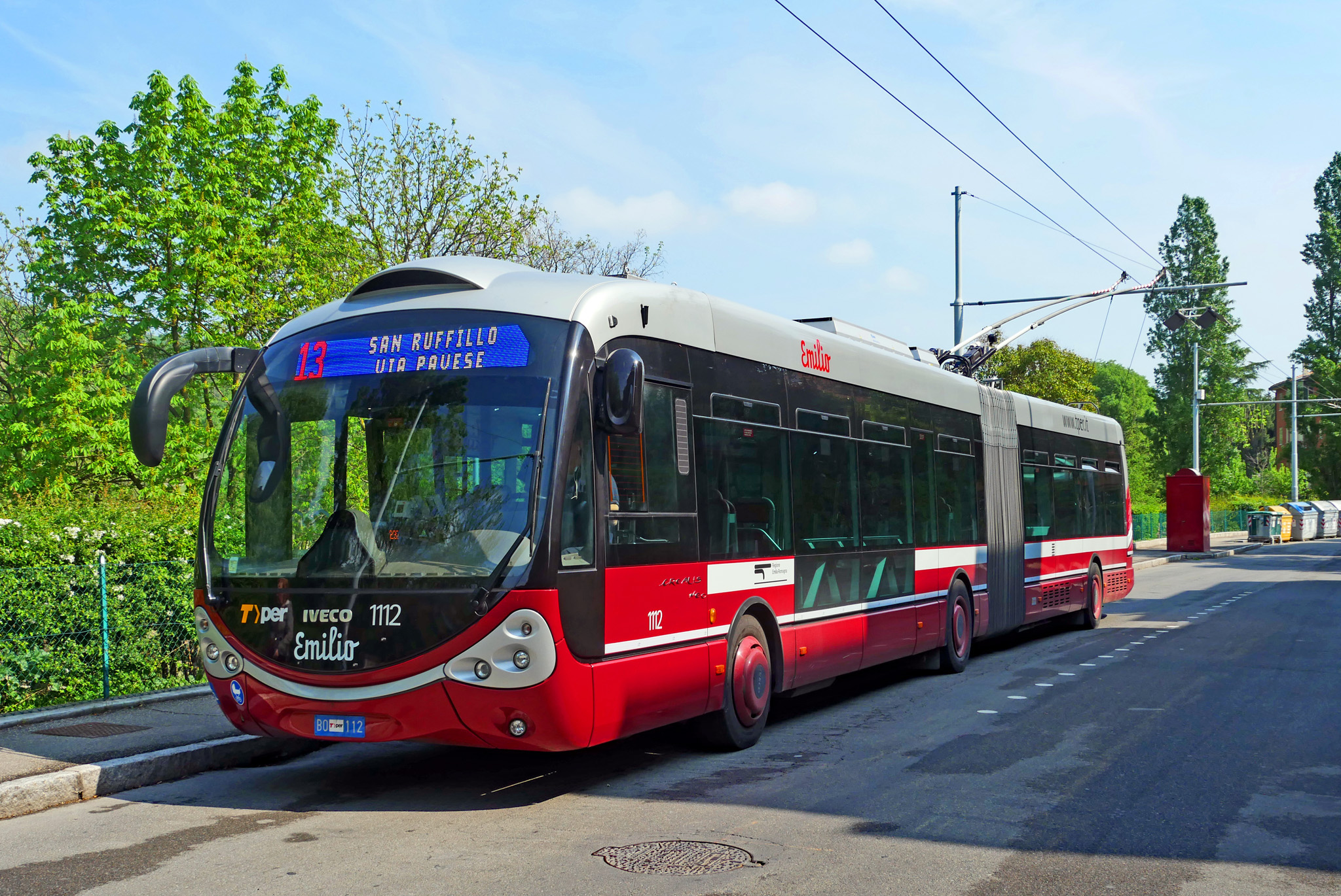 Bologna trolleybus 1112, a 2015 Iveco Bus Crealis 18, laying over at route 13's Via Pavese terminus, in the San Ruffillo district.